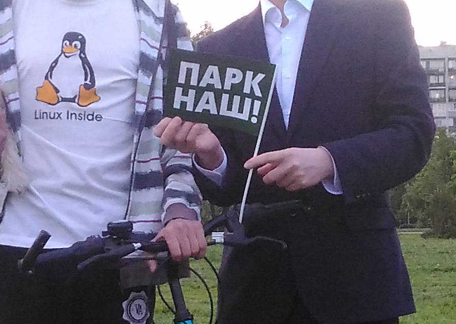 PARK NASH Kupchino urban campaign flag for illustrating Парк Интернационалистов section about this campaign